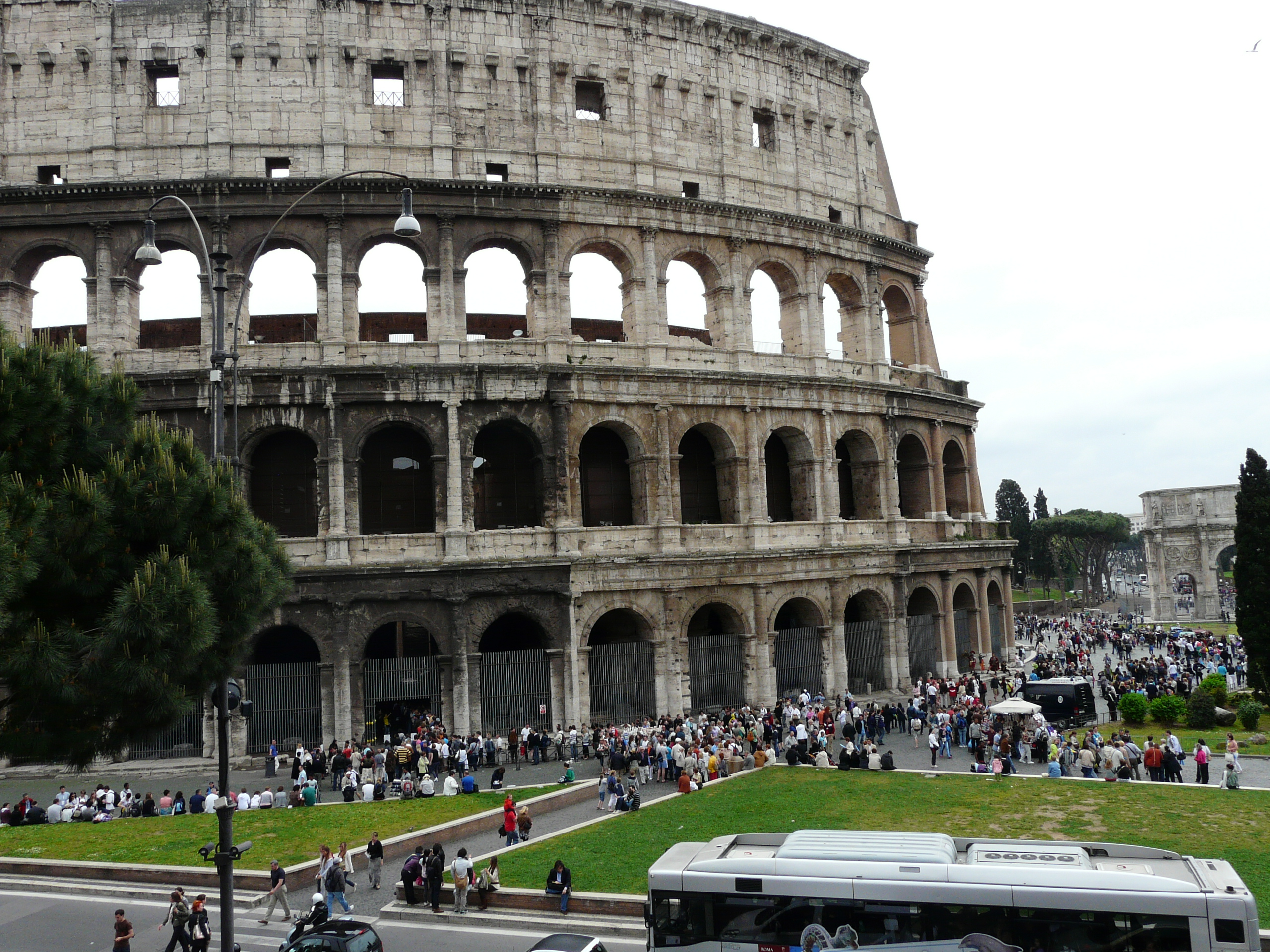 This is the beautiful view at the largest amphitheater ever built in the Roman Empire in Rome, Italy. The area of the Colosseum and the Roman Forum are usually very crowded. At the back right side of the photo you can see the Arch of Constantine. Find out more interesting photos at out travel blog